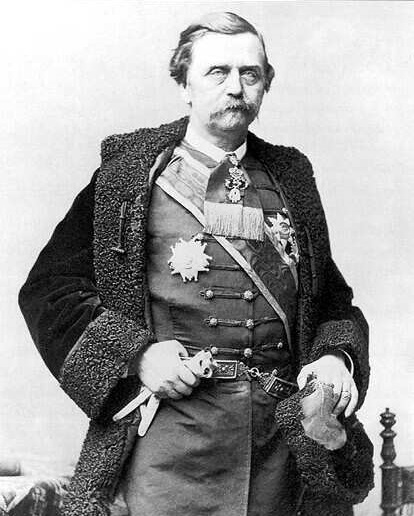 Count Gyula Szapáry de Szapár, Muraszombath and Széchysziget (1832–1905), Hungarian politican, prime minister (1890–1892) and landowner. Photography of Károly Koller.